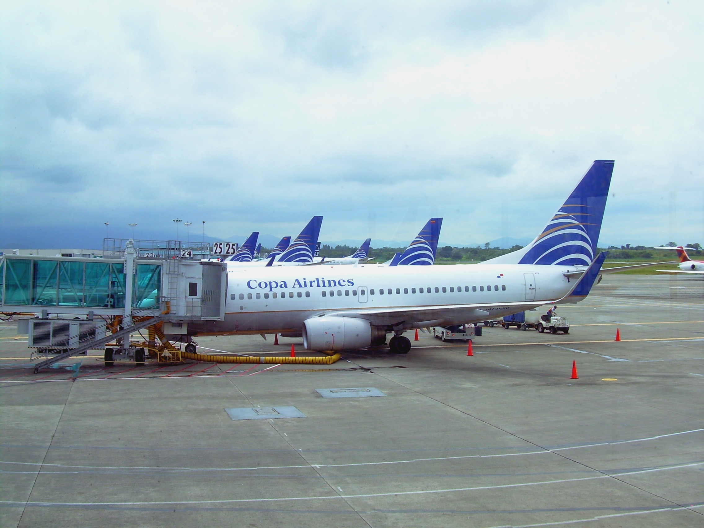 COPA Airlines fleet parked at Tocumen International Airport, Panama City, Panama.